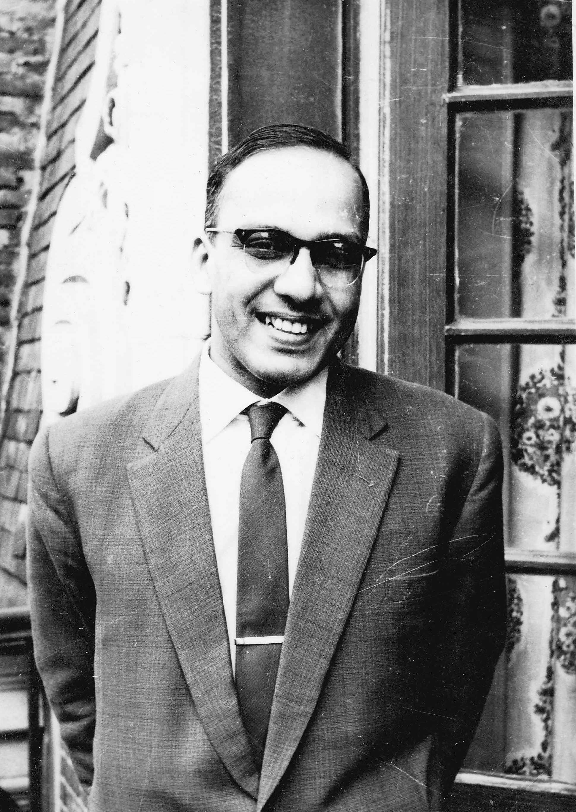 Indian Clinical Psychologist of repute; former head of the department of Clinical psychology - NIMHANS, Bangalore, Philosopher and writer